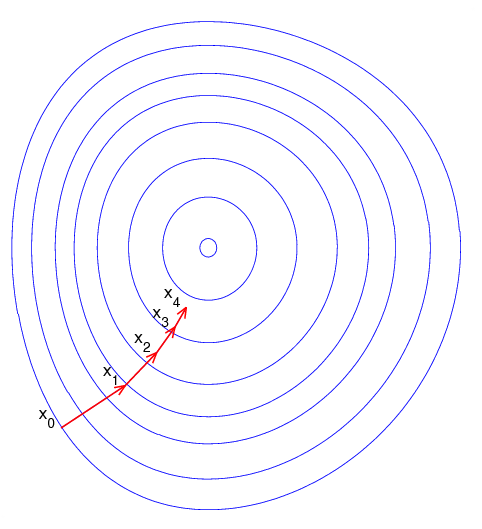 An illustration of the gradient descent method. I graphed this with Matlab